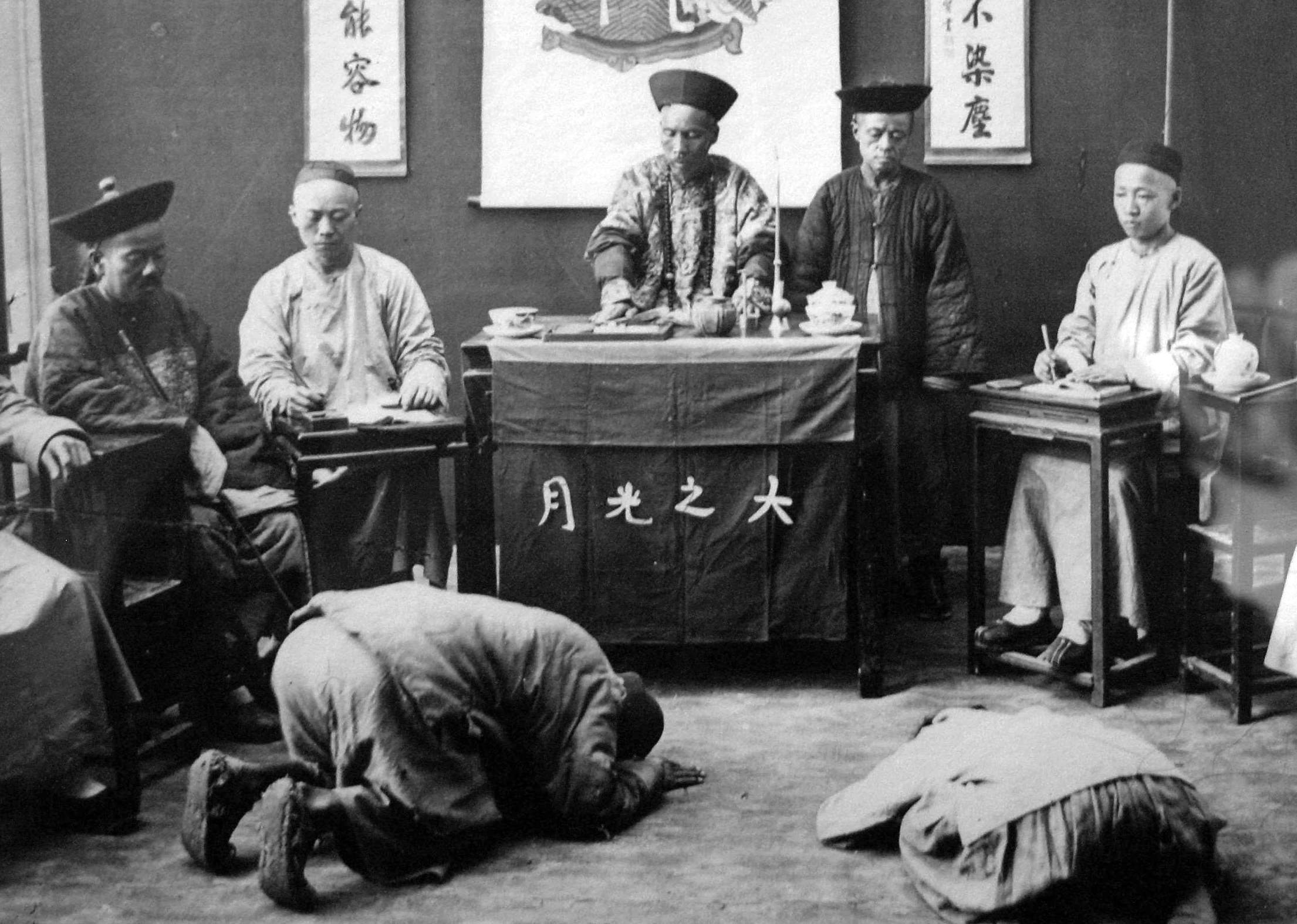 Court sitting during Qing dynasty, 1889